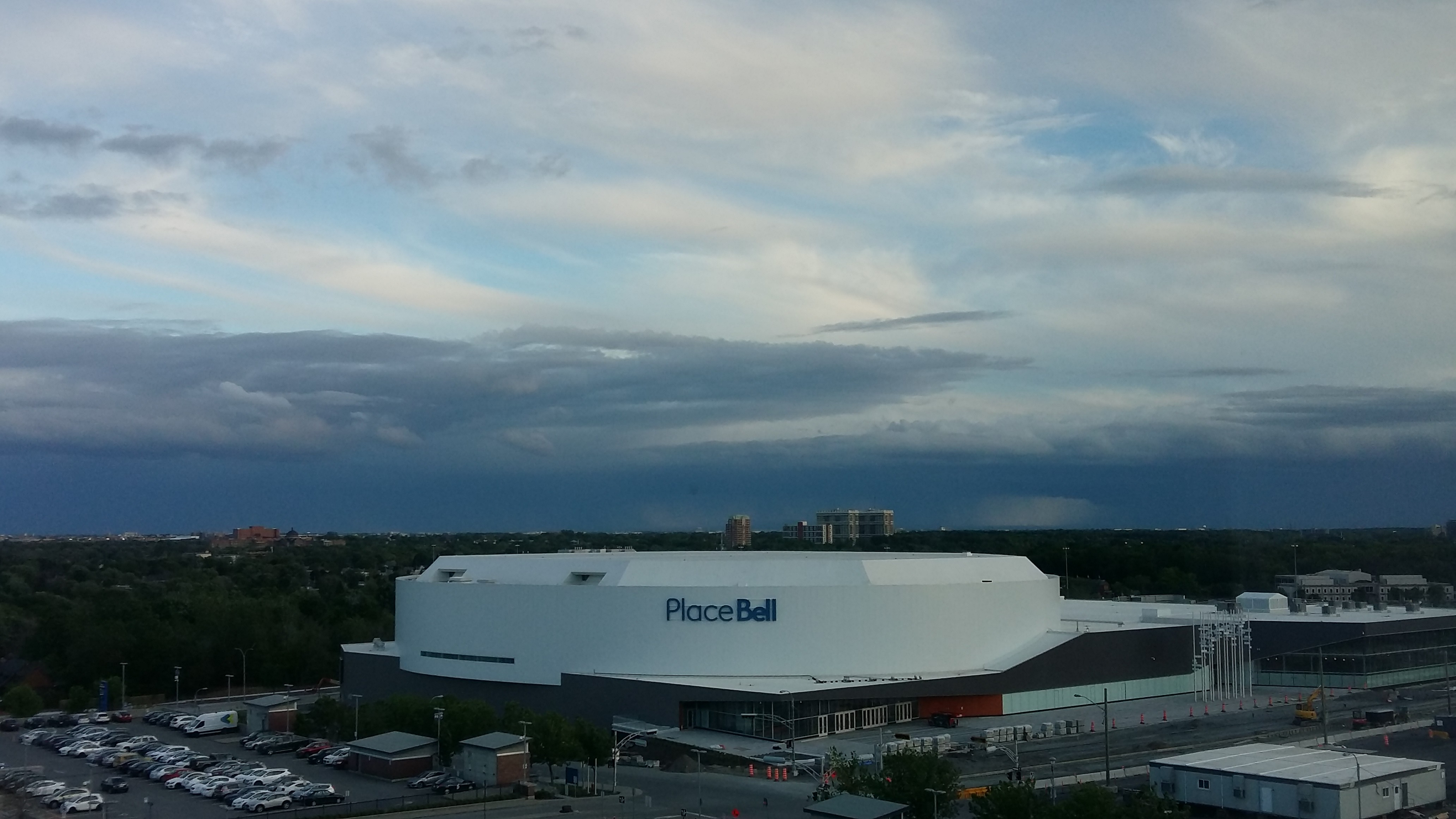 Place Bell presque complétée, image prise du 6e étage de l'Université de Montréal, direction Sud